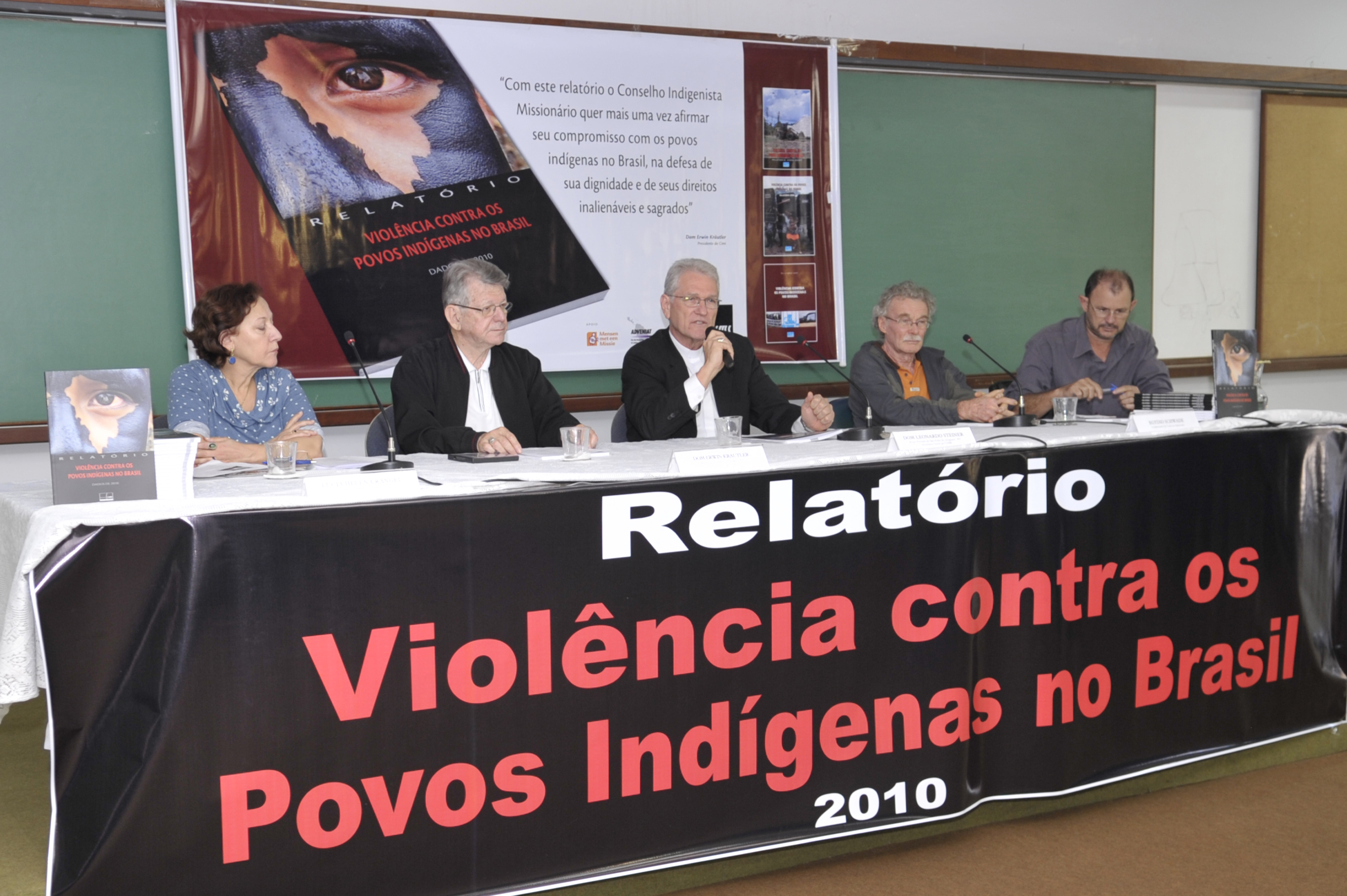 Brasilia, June 30, 2011. Anthropologist Lucia Helena Rangel, with the President of the Indigenous Missionary Council (CIMI), Dom Erwin Kräutler, and the secretary general of the National Conference of Bishops of Brazil (CNBB), Dom Leonardo Ulrich Steiner, presenting the report Violence Against Indigenous Peoples in Brazil in 2010.